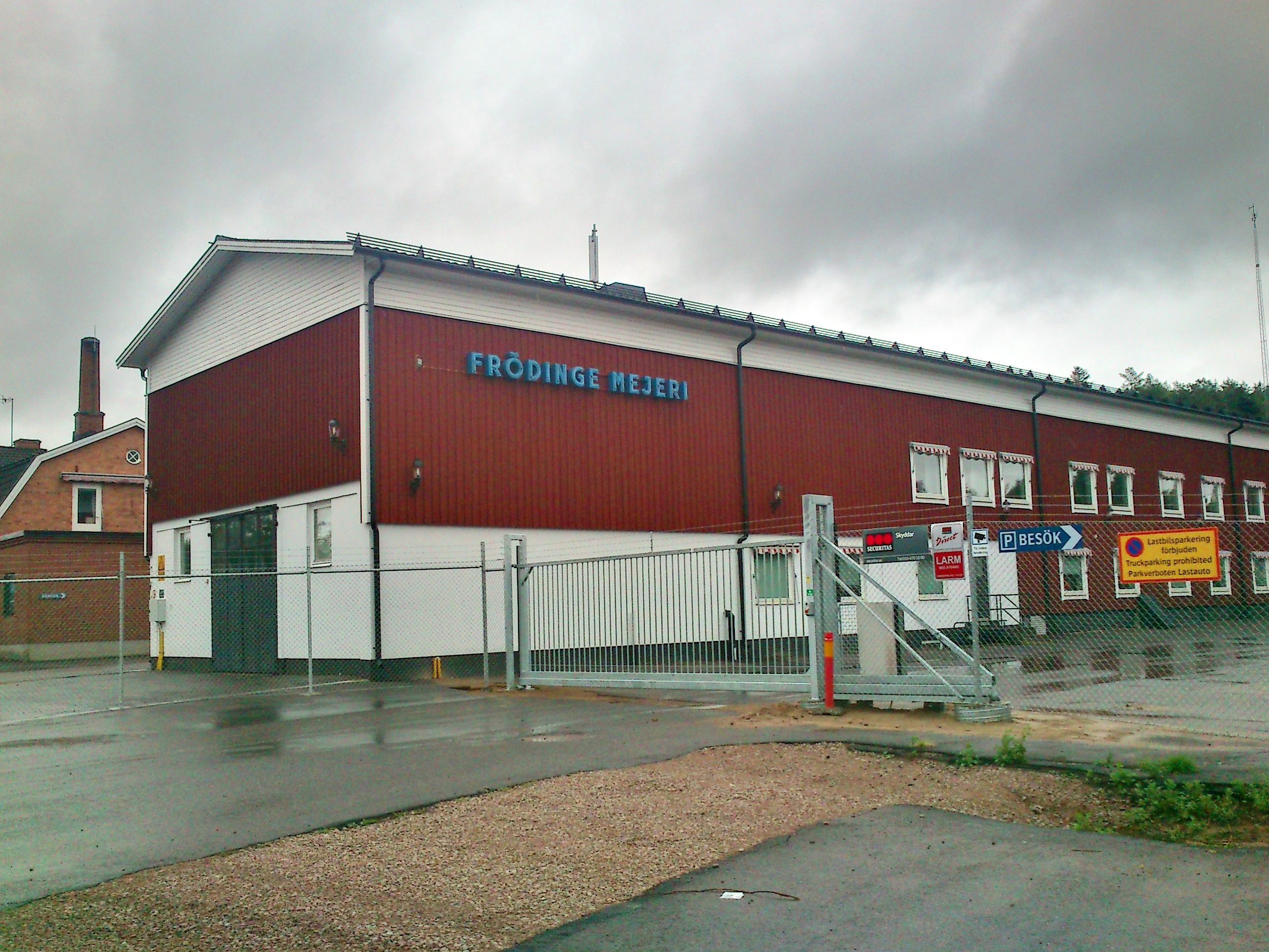 The Frödinge dairy outside Vimmerby is famous for its curd cake.